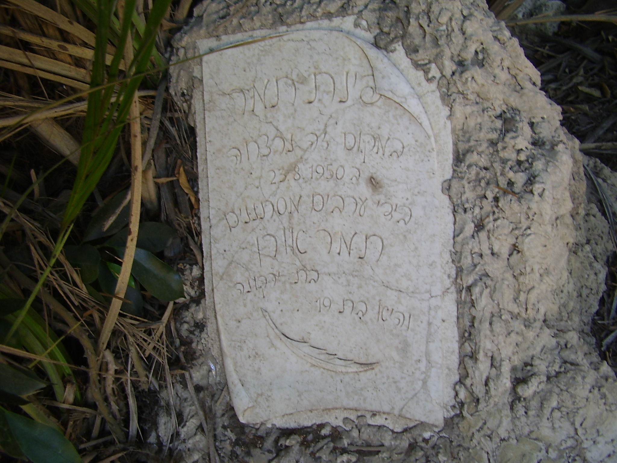 Memorial to Tamar Oren in Yarkona, Israel